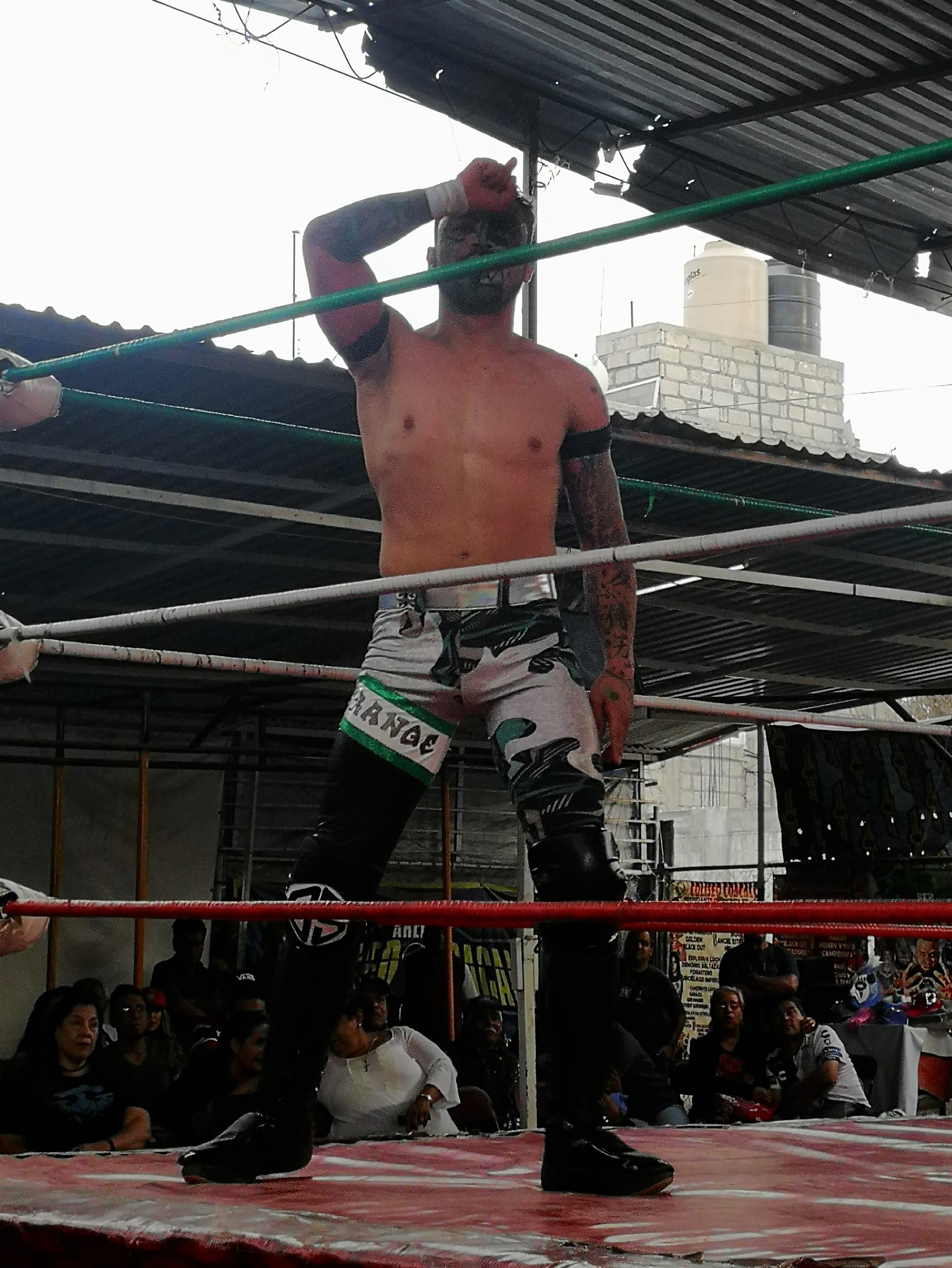 Mexican luchador Arez, here in Arena Coliseo Coacalco in Coacalco, Mexico City